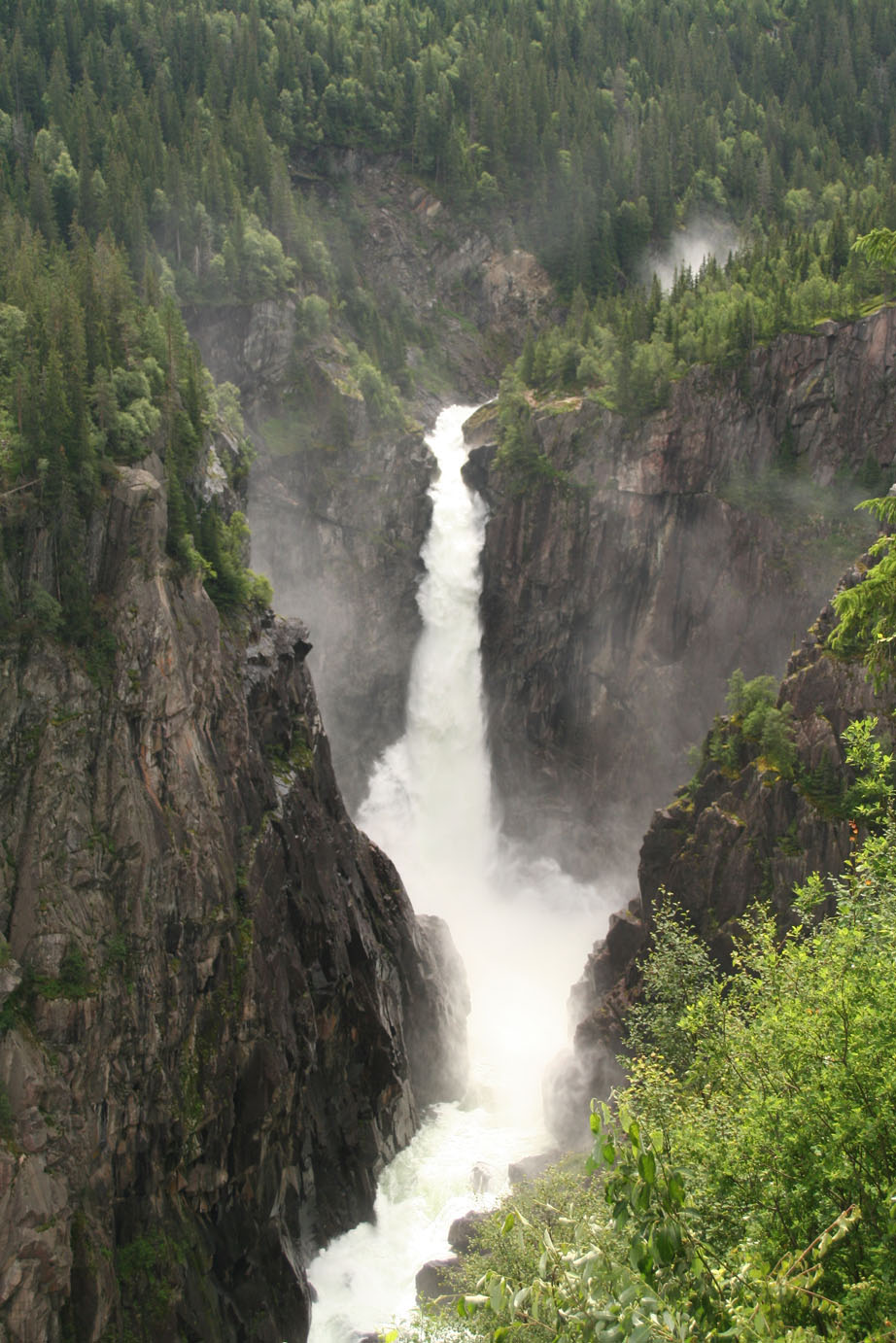 Rjukanfossen, Telemark, Norway. This waterfall hasn't been fully opened in 12 years. in wirbel photostream.